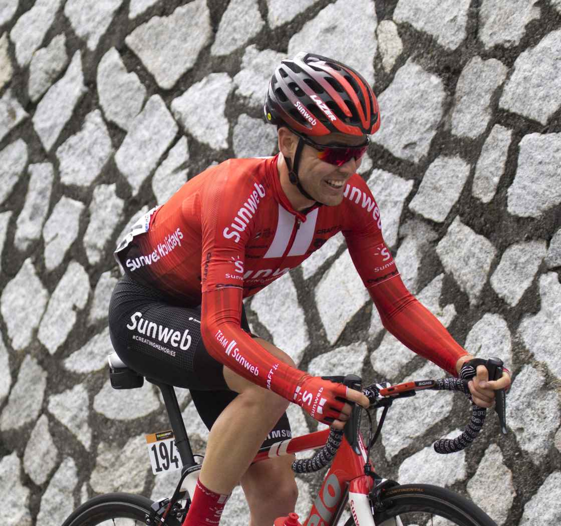 GIRO0500 hamilton